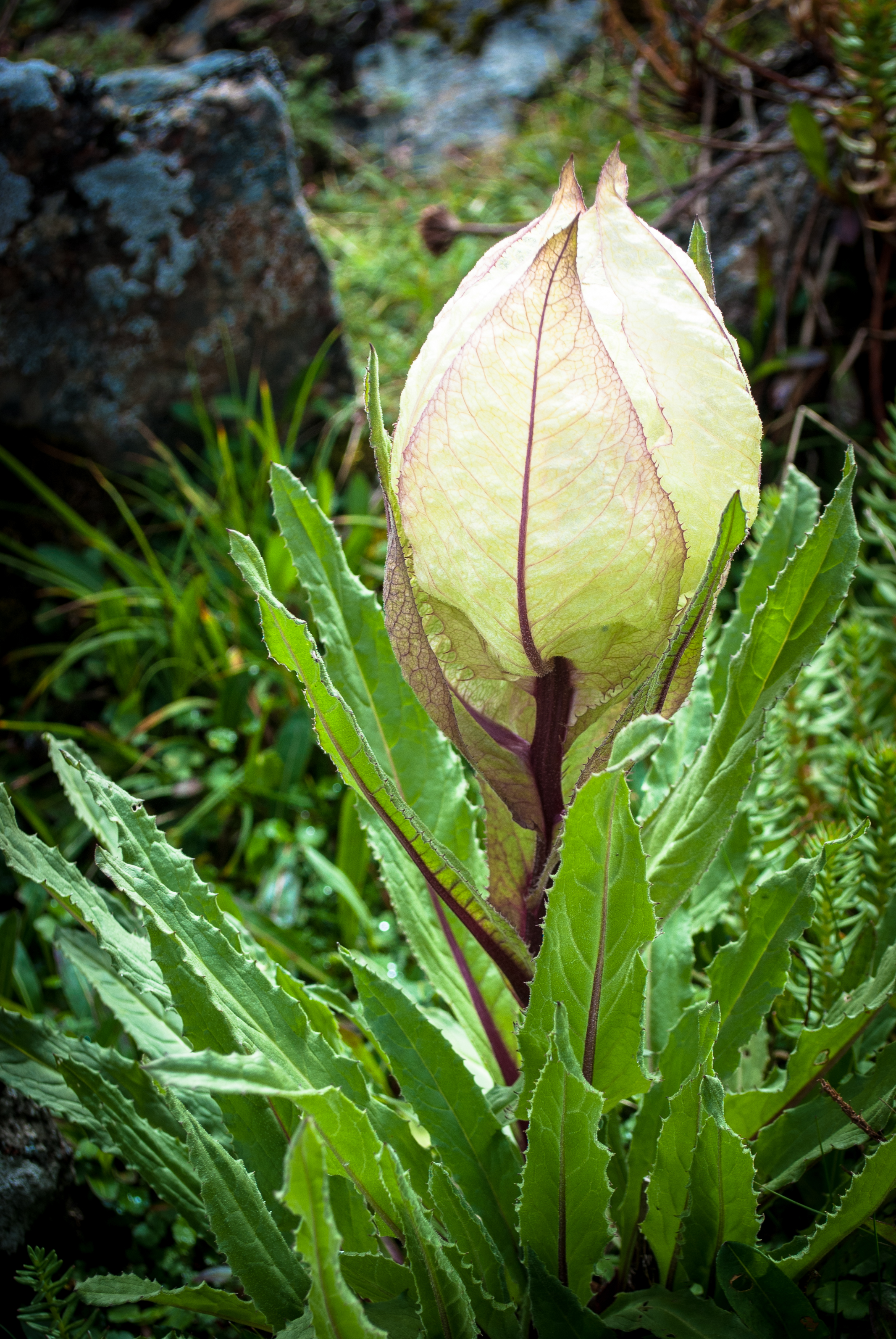 Photographed during the 'RoopKund Trek' on our way to Baguabasa from Kailuvinayak in August 2014